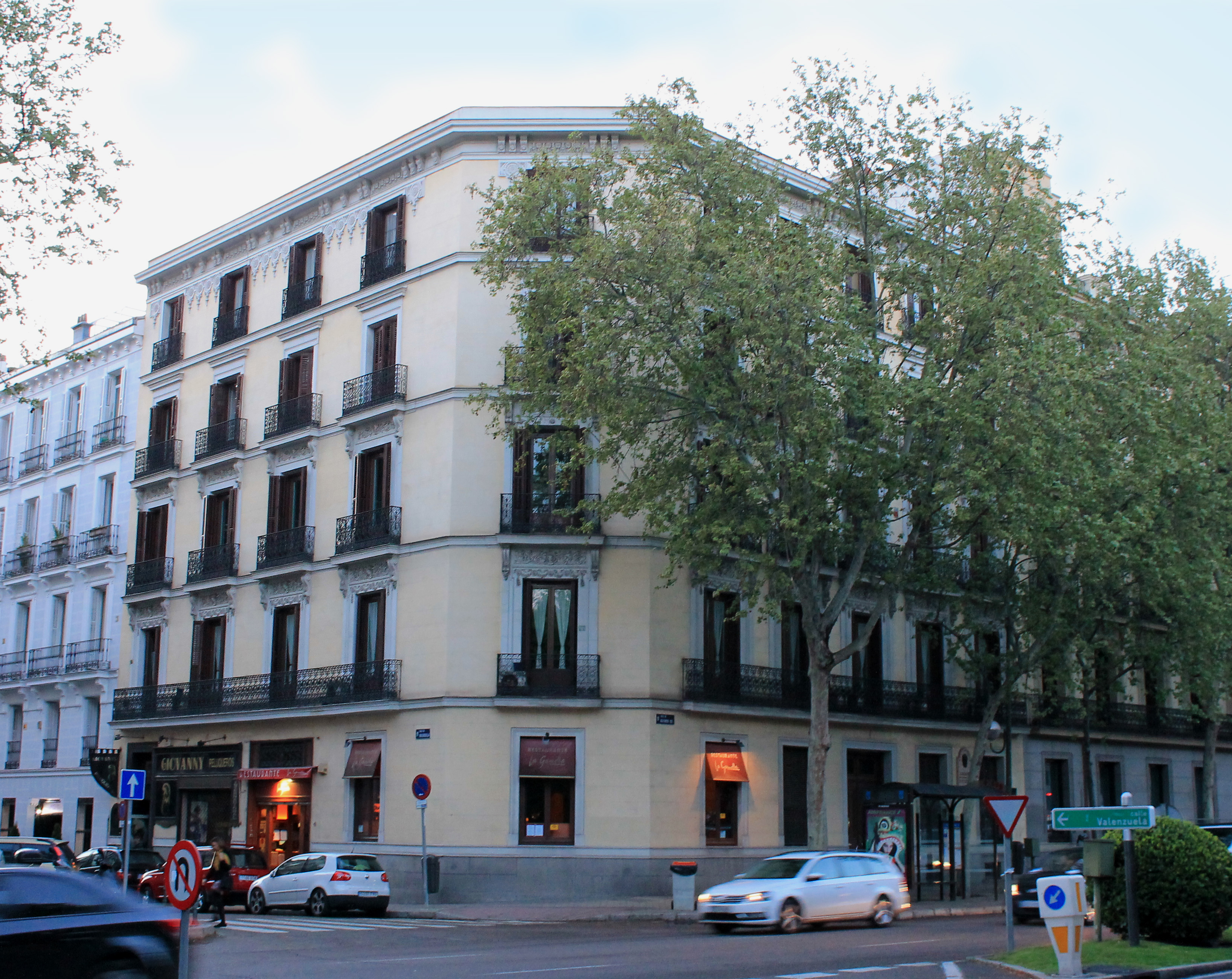 Façade of Casas Salabert in Madrid (Spain).